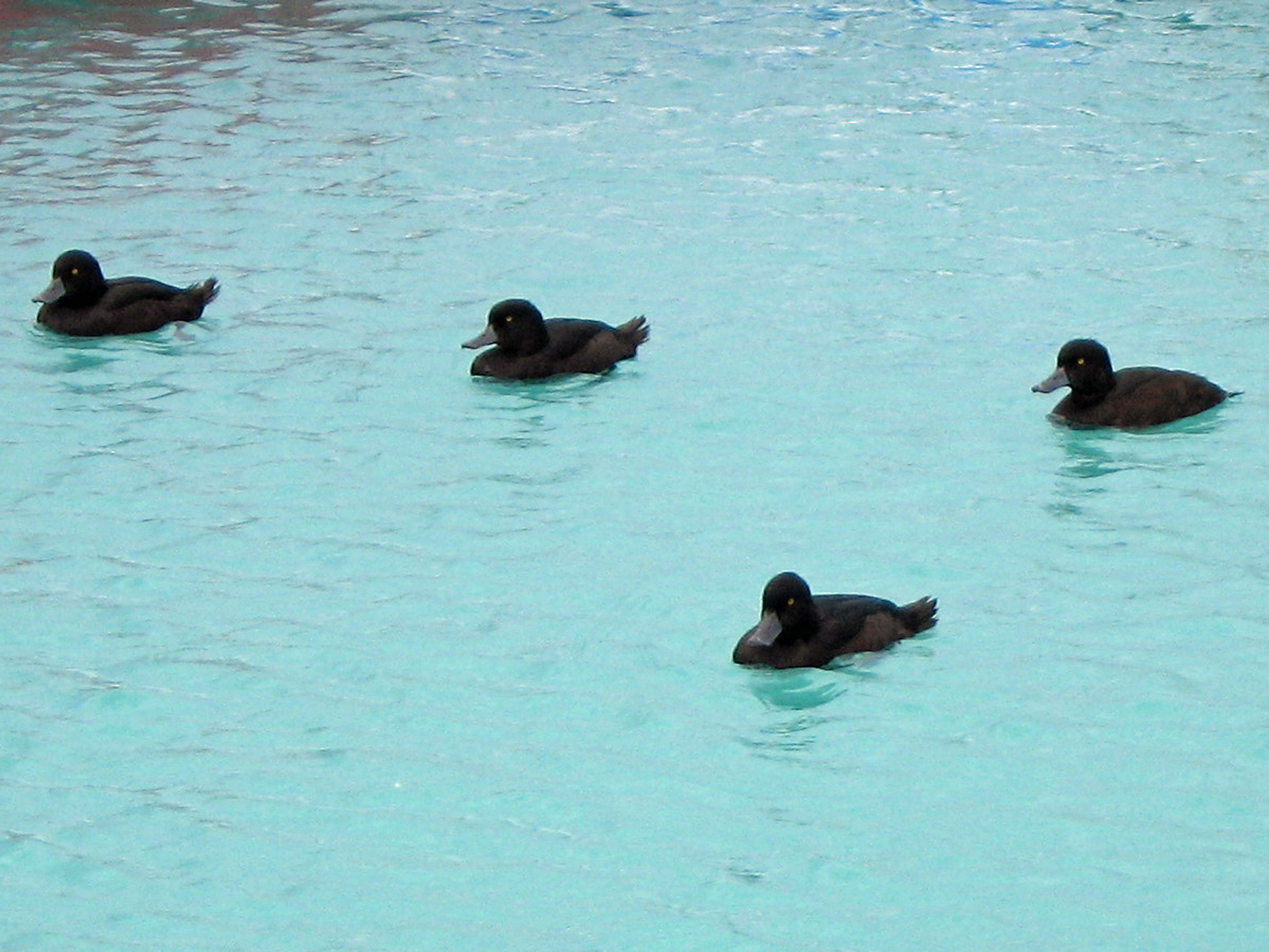 New Zealand Scaup Aythya novaeseelandiae flock, Twizel, New Zealand